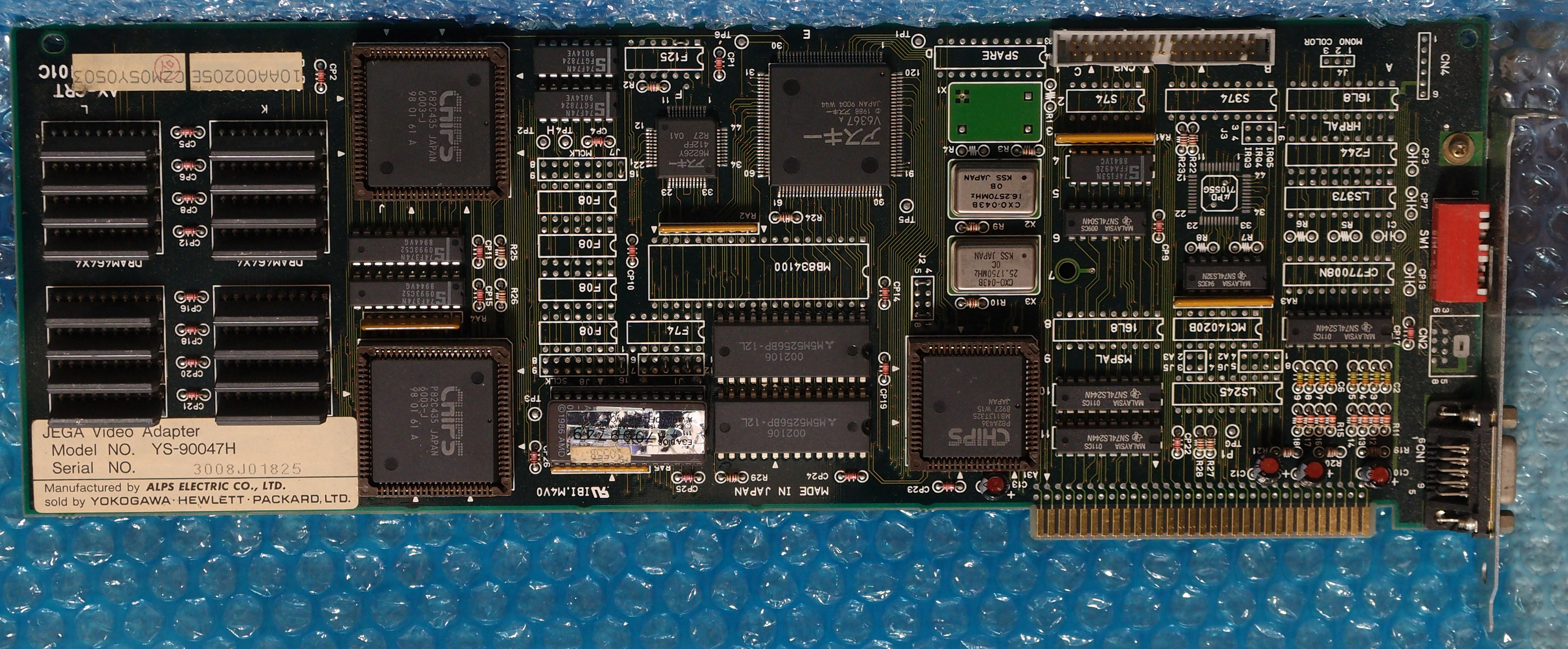 Top view of JEGA Video Adapter used in Japanese AX computers. Model NO. YS-90047H. Manufactured by Alps Electric Co., Ltd. Sold by Yokogawa-Hewlett-Packard.